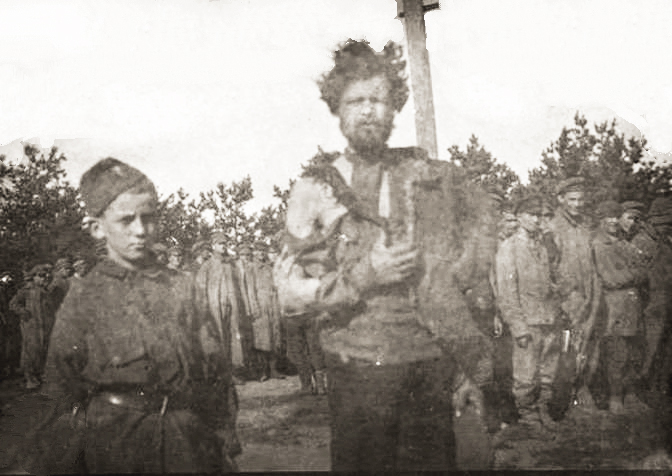 Soviet prisoner of war durin Polish-Soviet war 1920